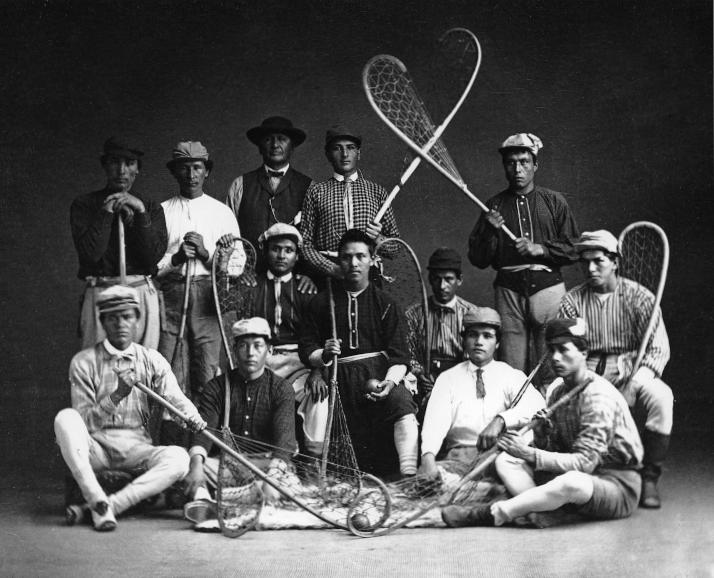 Photograph, Kahnawake Lacrosse Club, Montreal, QC, 1867, William Notman (1826-1891), Silver salts on paper (semi-matt finish) - Gelatin silver process - 20 x 25 cm